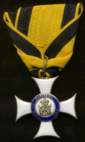 Scan by uploader from own collection.